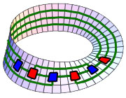 Solution of water, gaz and electricity enigma on a Möebius surface.